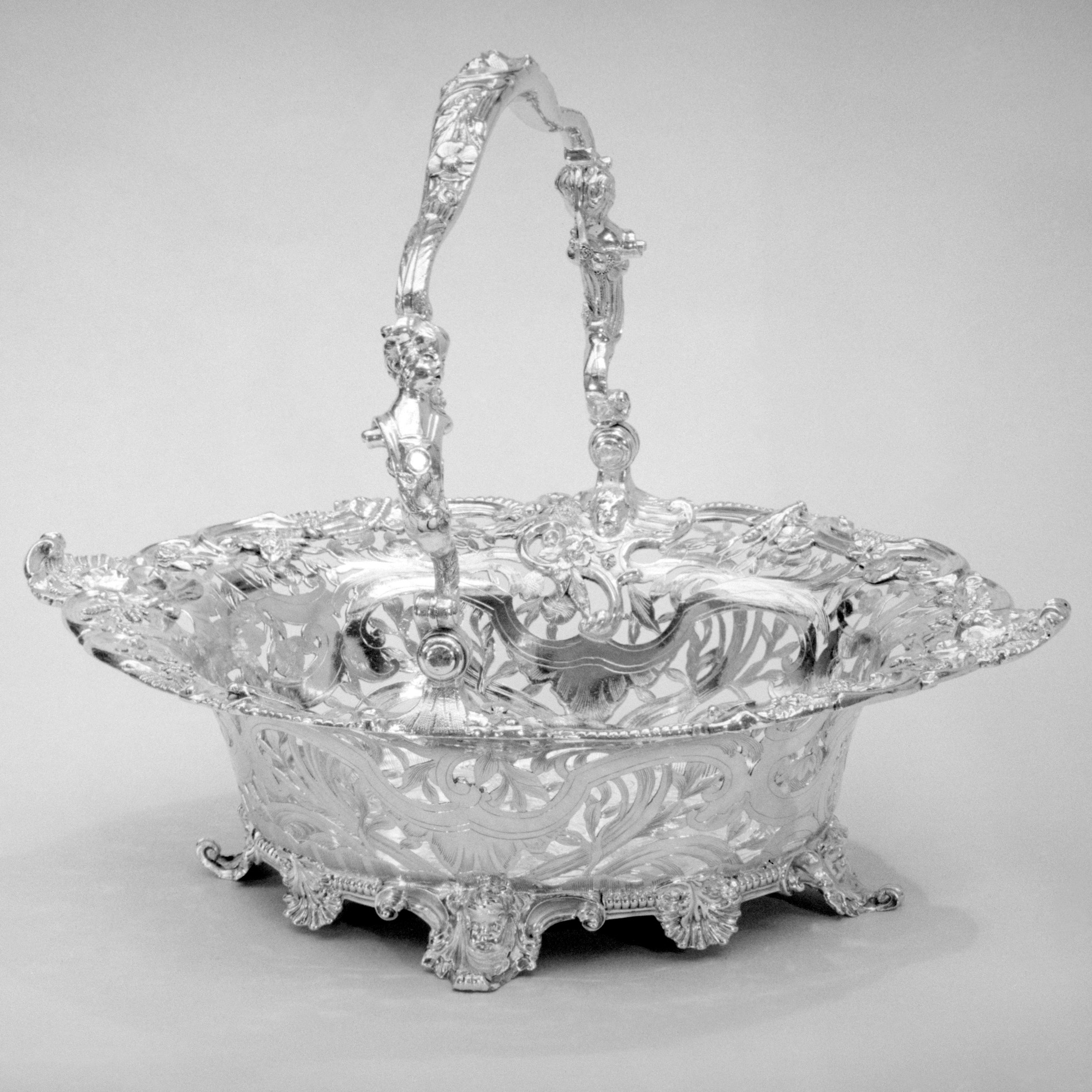 British, London; Cake basket; Metalwork-Silver